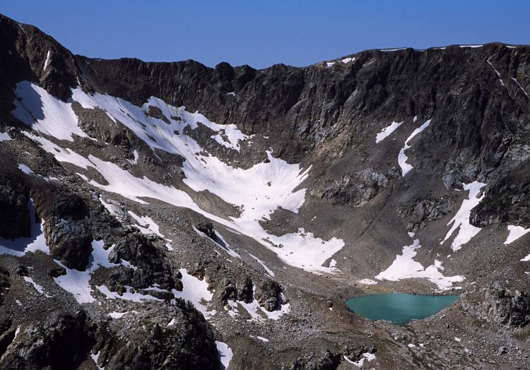 Mica Lake and the remnants of Petersen Glacier in Grand Teton National Park, Wyoming